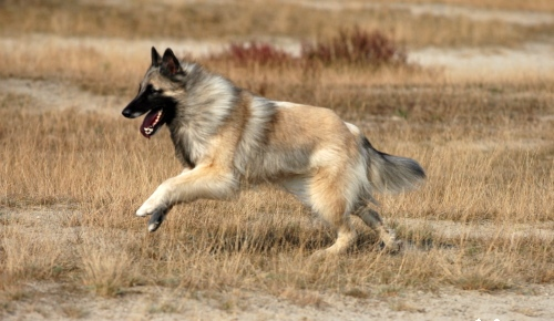 A Belgian Tervuren